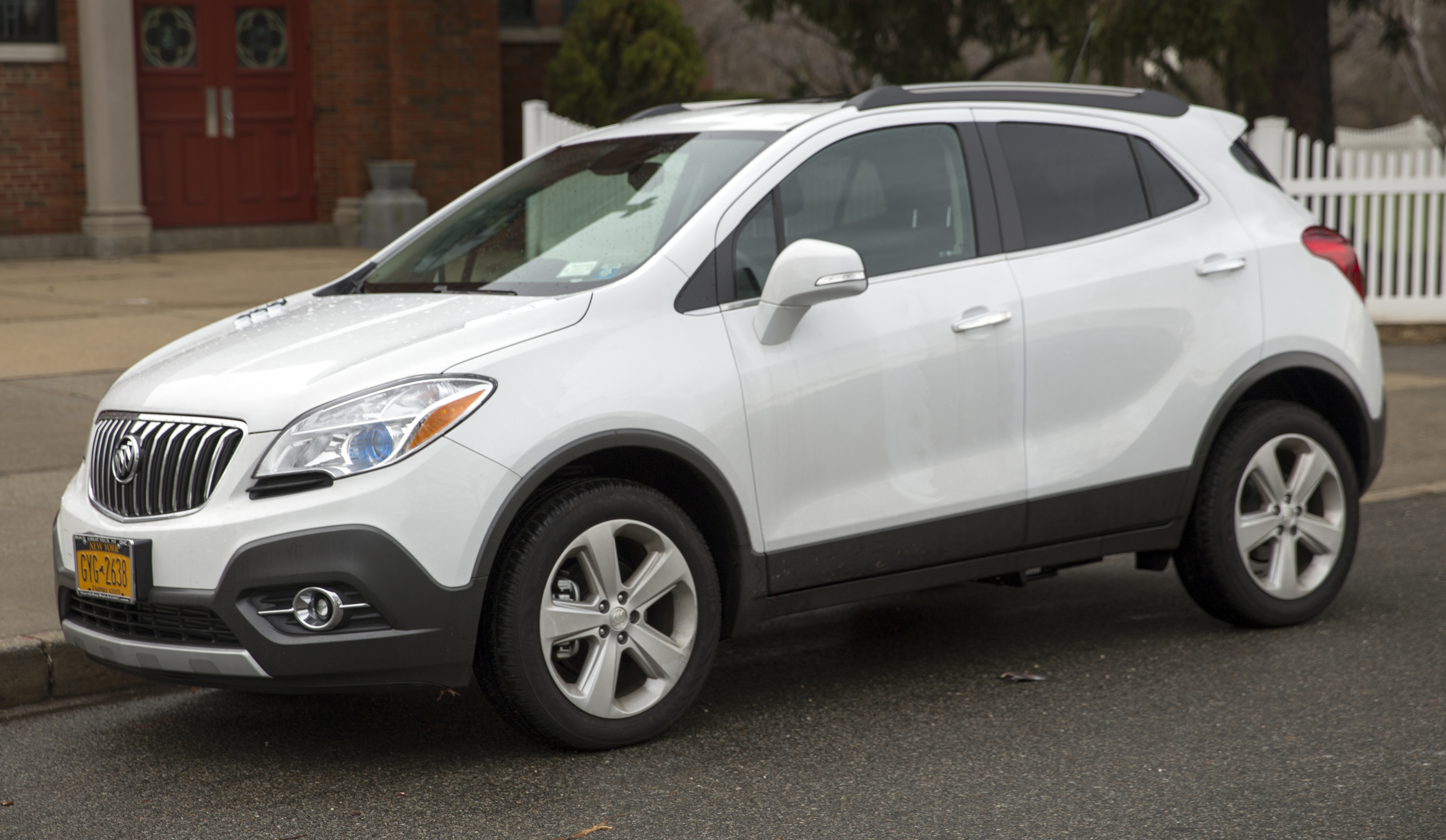 A 2016 Buick Encore Convenience. 1.4 Turbo, 6-speed Auto, AWD. Summit White with Ebony interior.